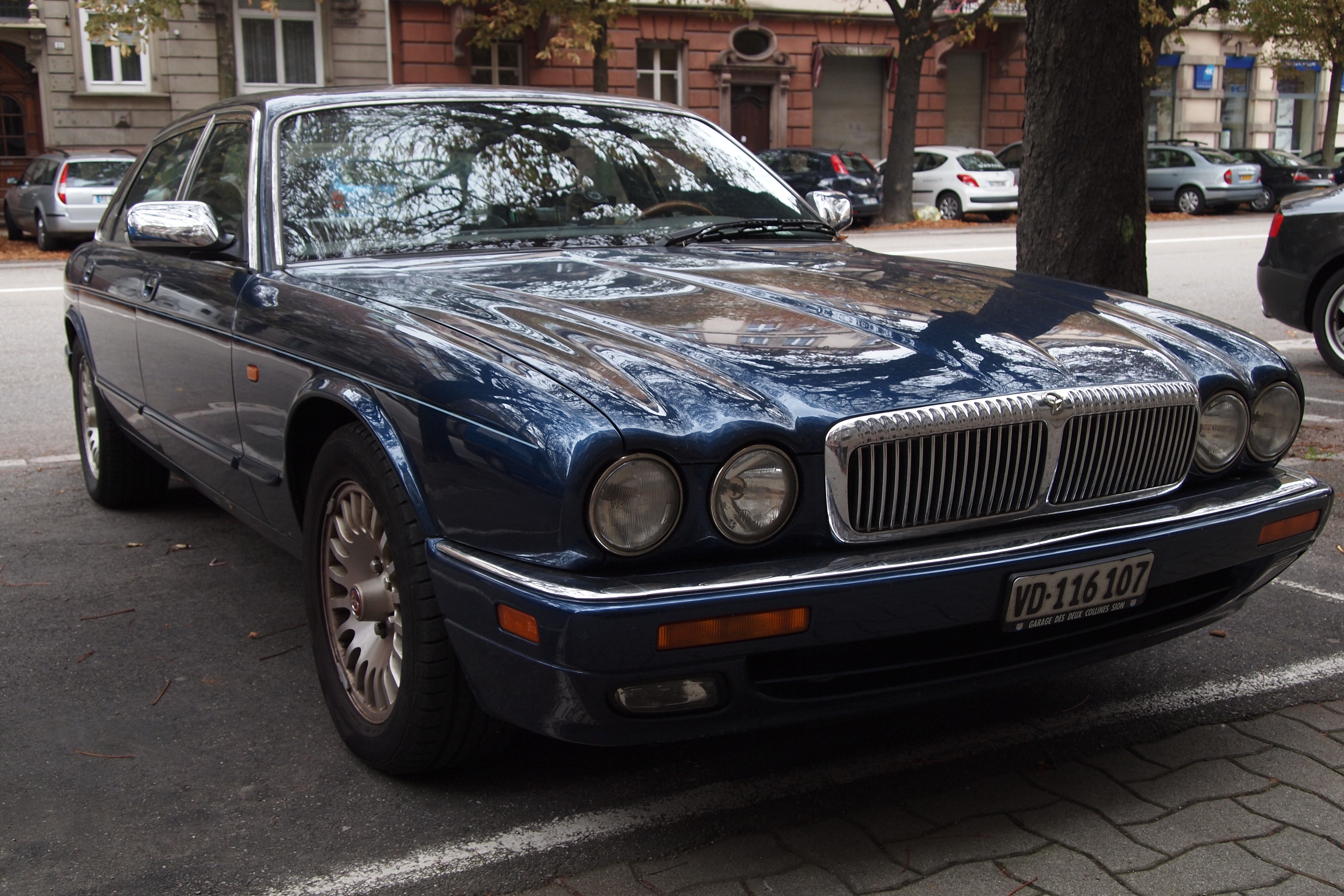 A Daimler Double-Six car, in the look from 1994 to 1997. Description in Wikipedia